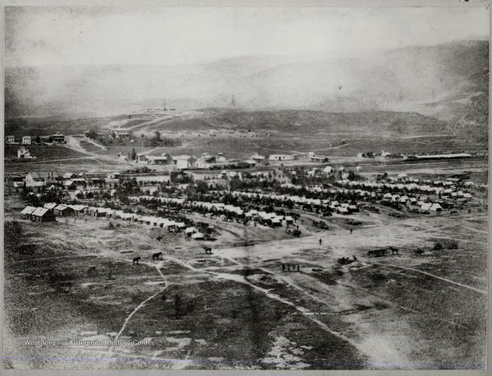 Civil War Federal Army camp at New Creek, West Virginia. The town of New Creek, later named Keyser, is seen in the background, 1865.